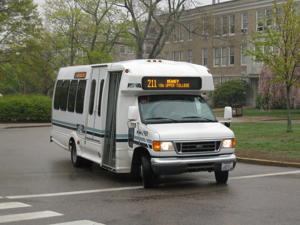 RIPTA #0651 operates on the 211 Kingston Flex Shuttle route, on the campus of the University of Rhode Island.